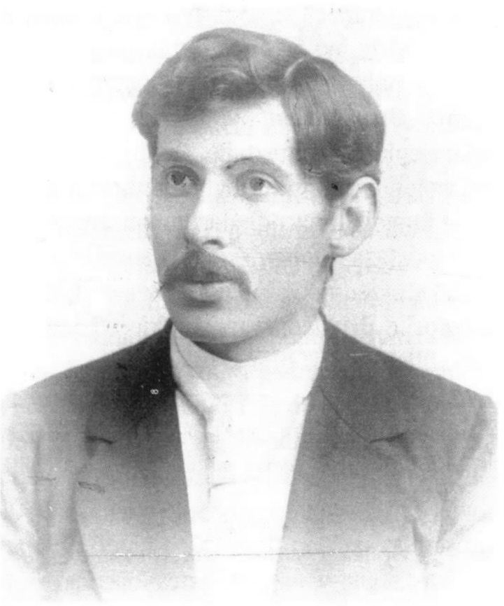 Polish neurologist Aleksander Pański (1862-1918)